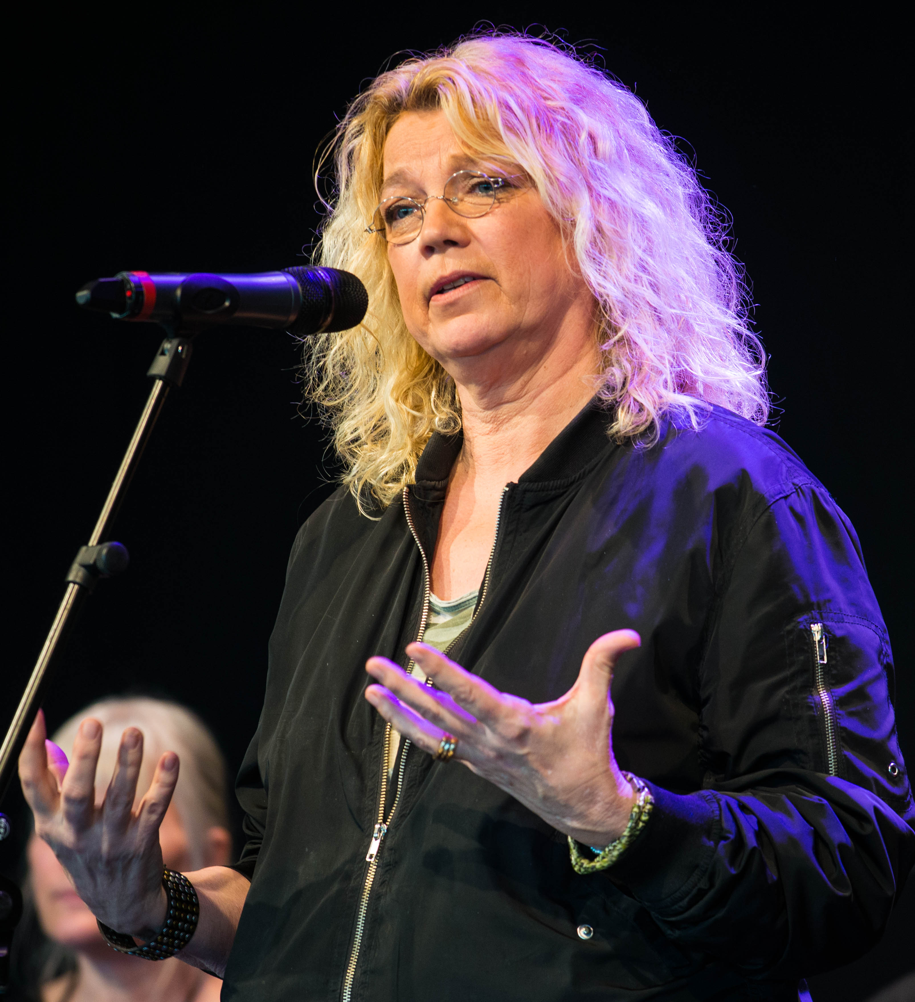 Elisabeth Ohlson Wallin in a rally in support of threatened artists and writers at the Kulturhuset Stadsteatern in Stockholm, February 14th 2015.